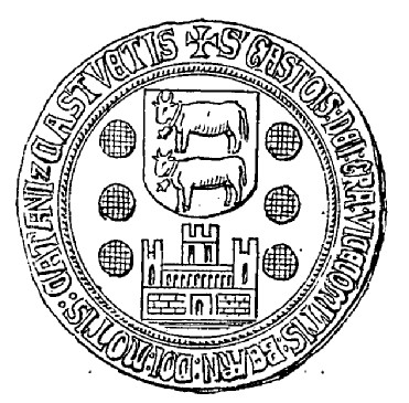 Gaston I of Foix